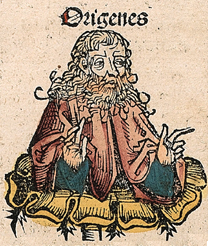 This is a part of a scan of an historical document: Title: Schedelsche Weltchronik or Nuremberg Chronicle